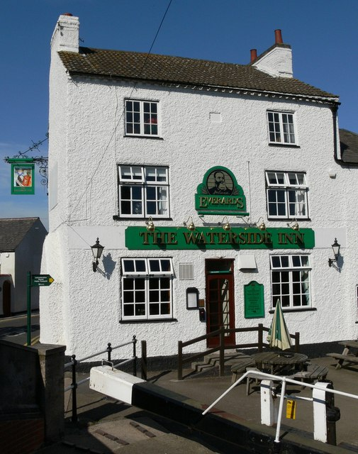 The Waterside Inn, Mountsorrel Everards Public House next to Mountsorrel Lock, on the Grand Union Canal.